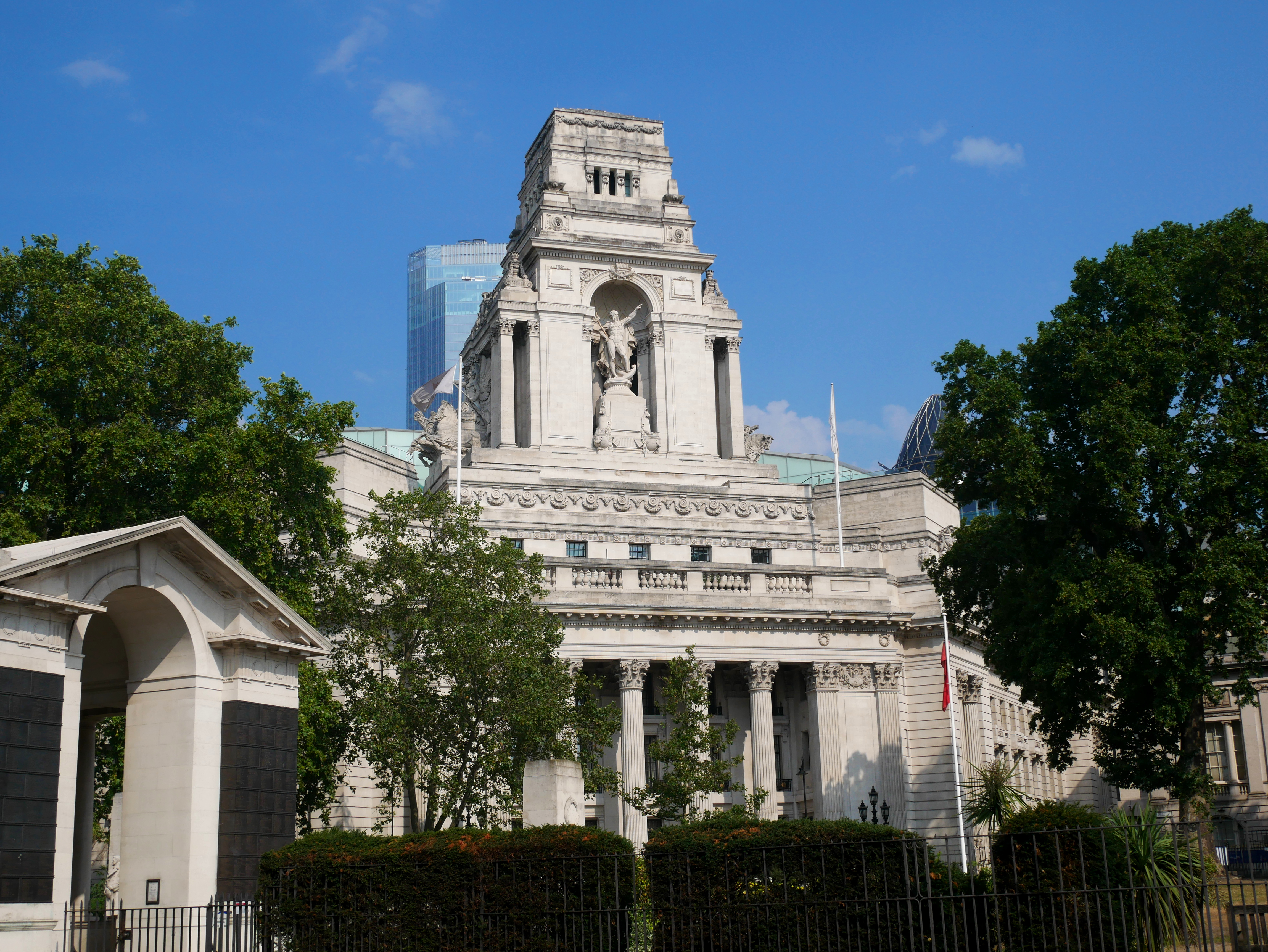 A view of 10 Trinity Square as seen from Tower Hill Road, to the southeast.